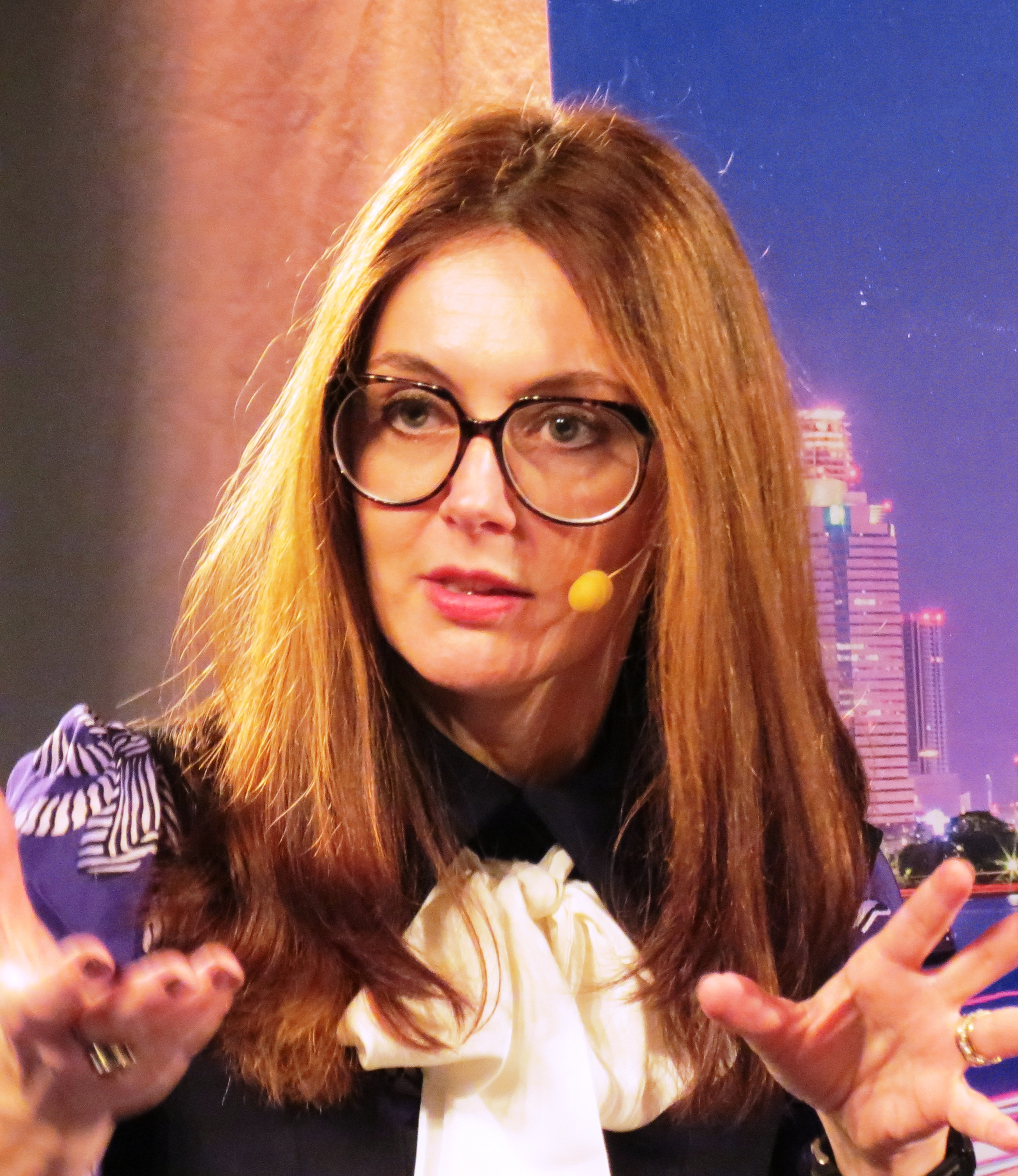 Danica Kragic, a Professor at the School of Computer Science and Communication at the Royal Institute of Technology in Stockholm.